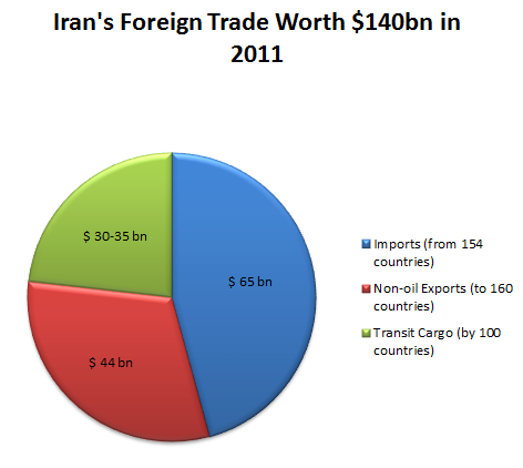 Iran's Foreign Trade (2011). Source for raw data: PressTV: "Iran Today"